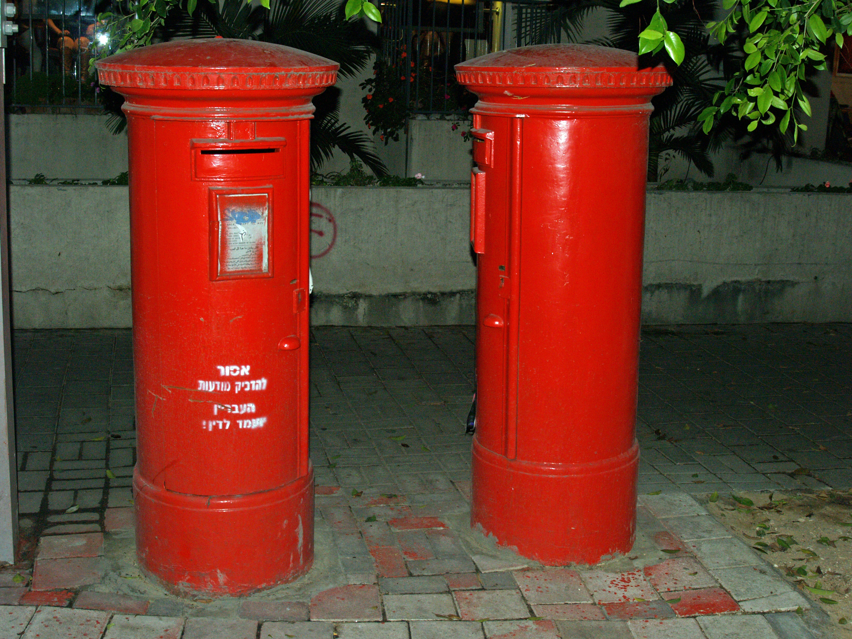 British cast-iron pillar boxes in Tel Aviv, Israel, dating from the British Mandate of Palestine. After independence in 1948, the British royal cyphers were ground off the door of every postbox in Israel.